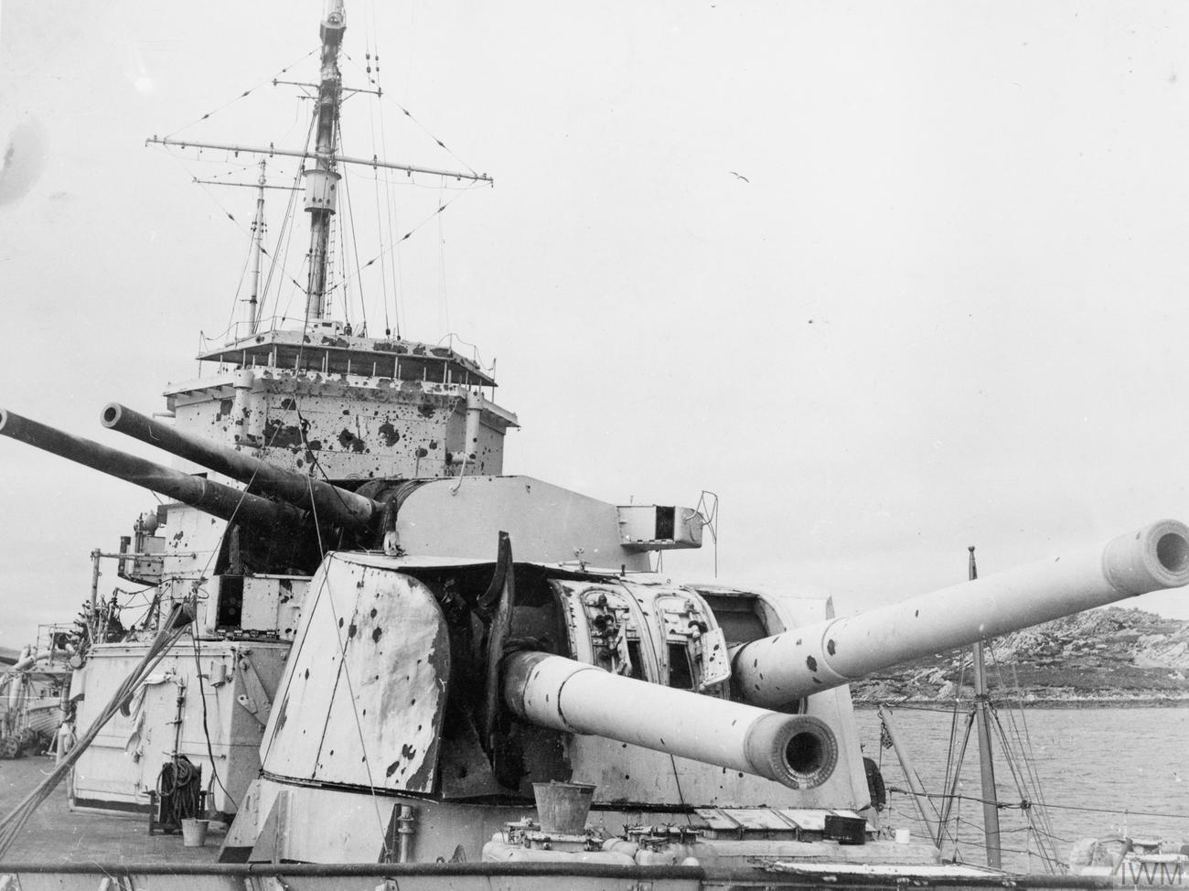 Damage received by HMS Exeter during the Battle of the River Plate, 13 December 1939